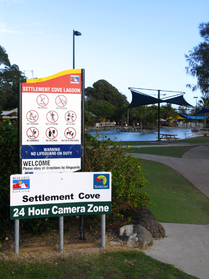 Settlement Cove swimming lagoon at Redcliffe, Queensland, Australia.